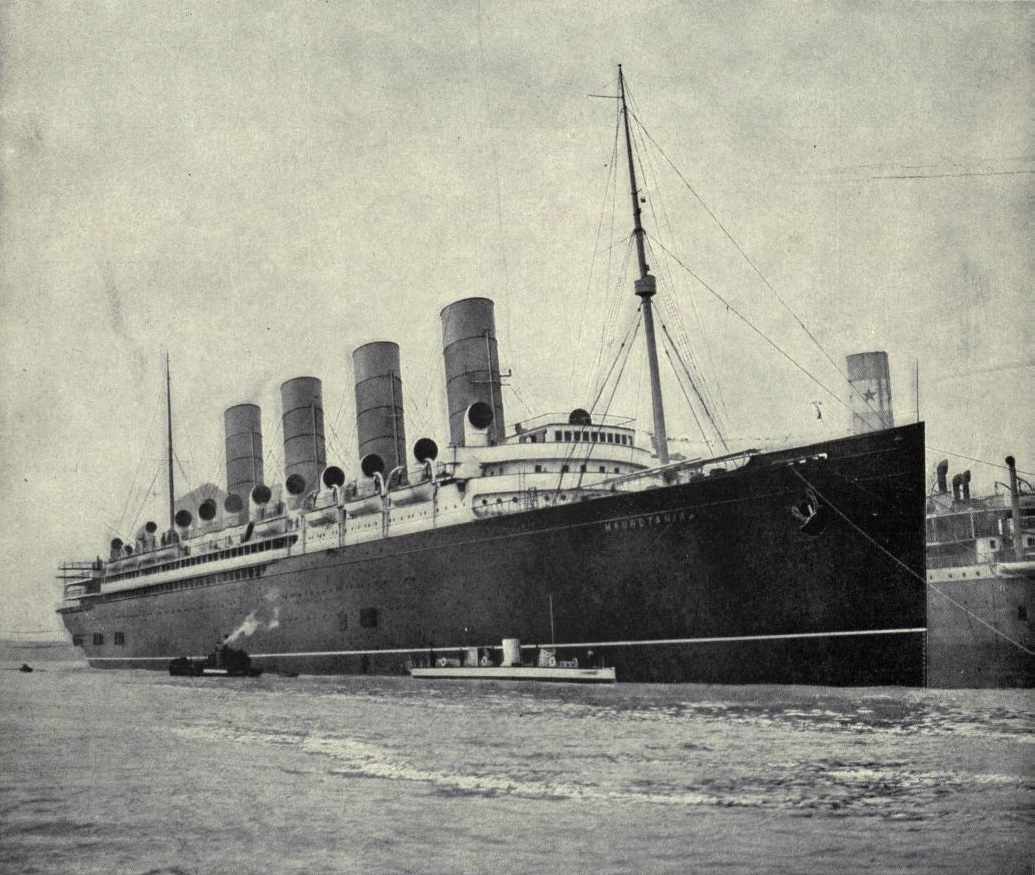 The steamship Mauretania was an ocean liner designed by Leonard Peskett and built by Wigham Richardson and Swan Hunter for the British Cunard Line in 1906. The Turbinia, alongside, was the first steam turbine-powered steamship; built as an experimental vessel in 1894.